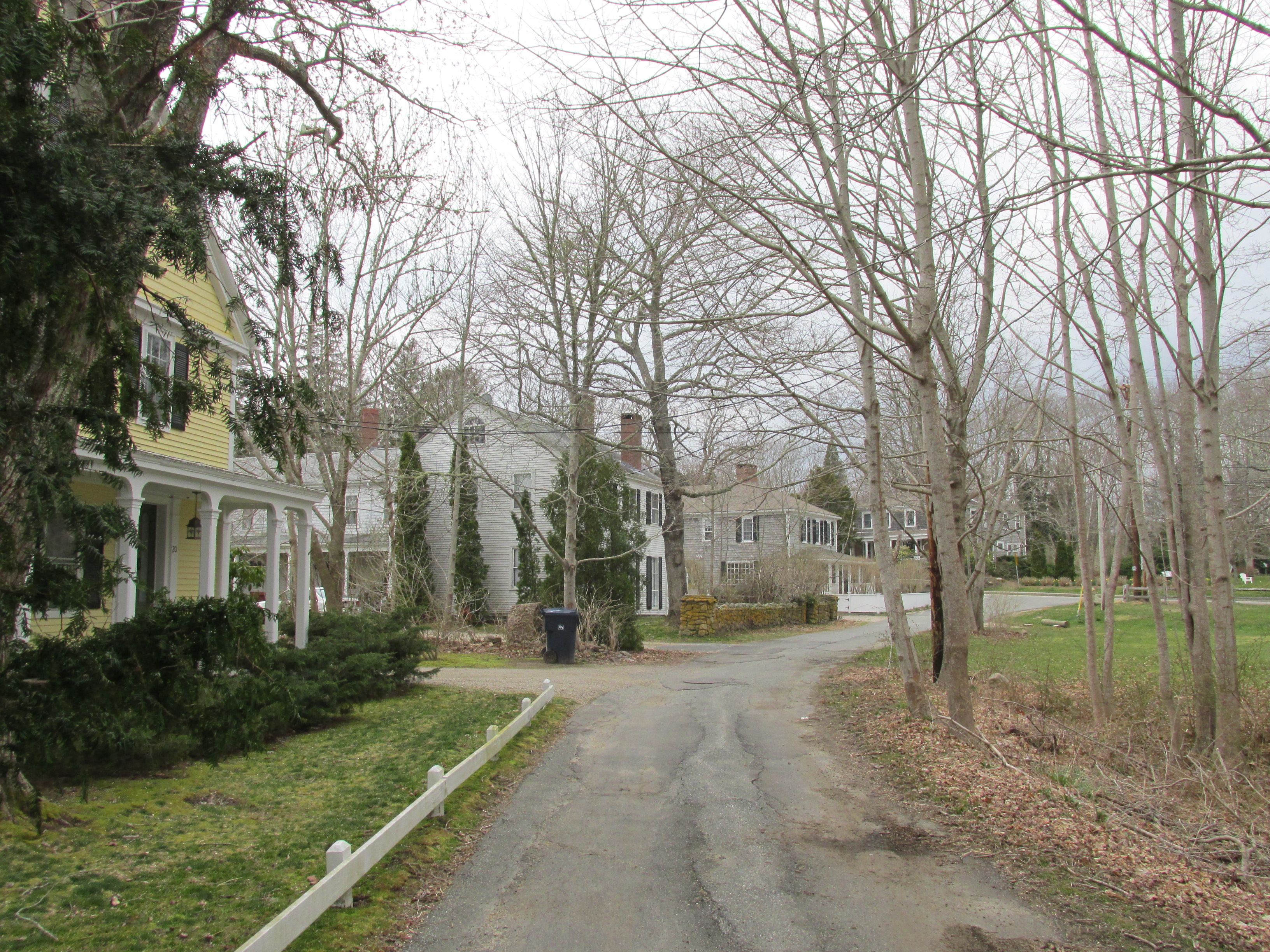 Bow Lane, Barnstable Massachusetts - 2013